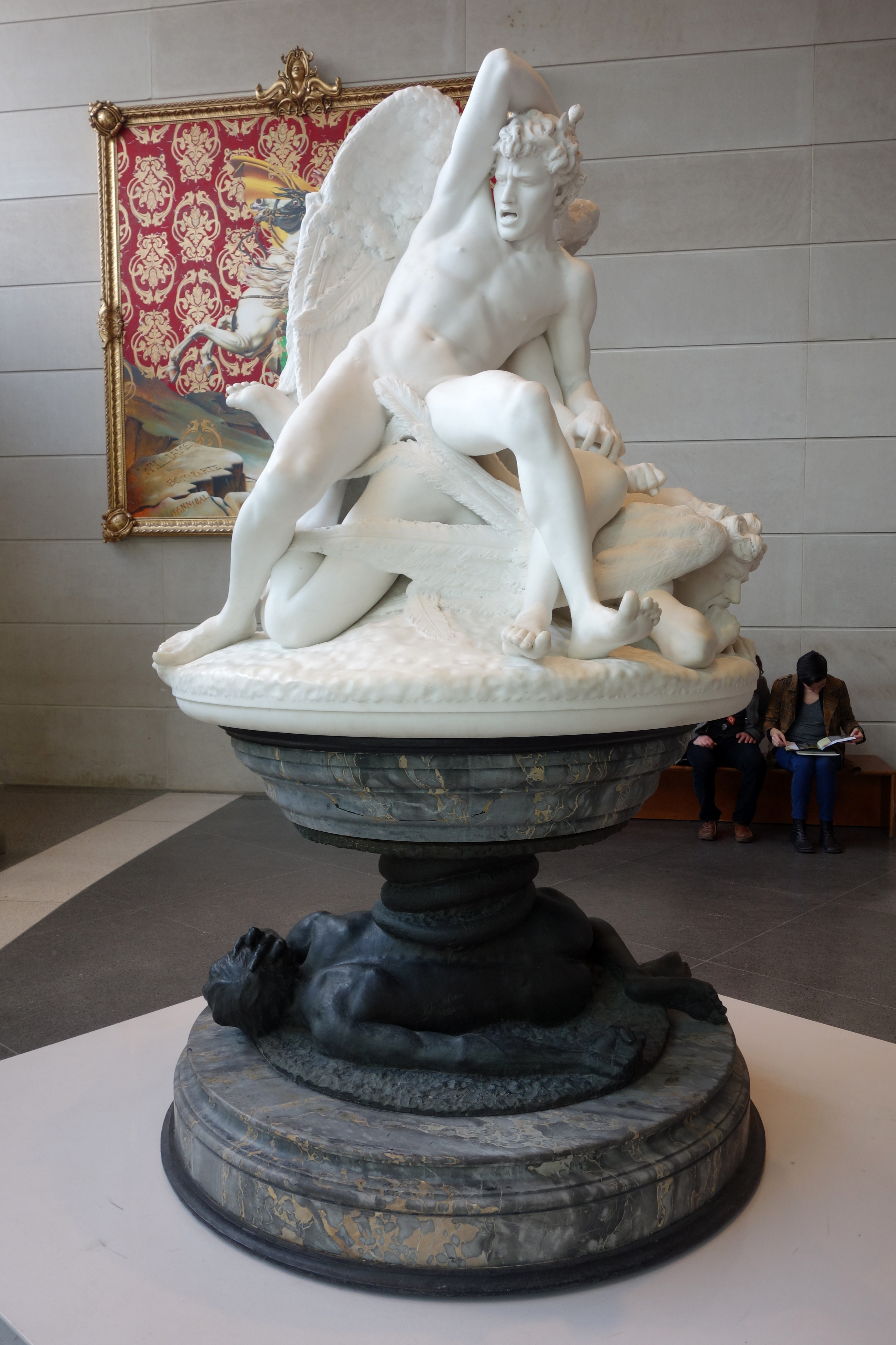 The Fallen Angels, also known as The Rebel Angels, by Salvatore Albano (1841-1893), in the Brooklyn Museum - Brooklyn, New York, USA. See: [1]. This artwork is in the public domain because the artist died more than 70 years ago.